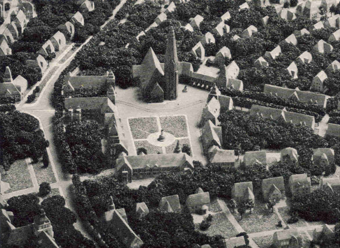 Photograph of a model of the Munksnäs-Haga plan